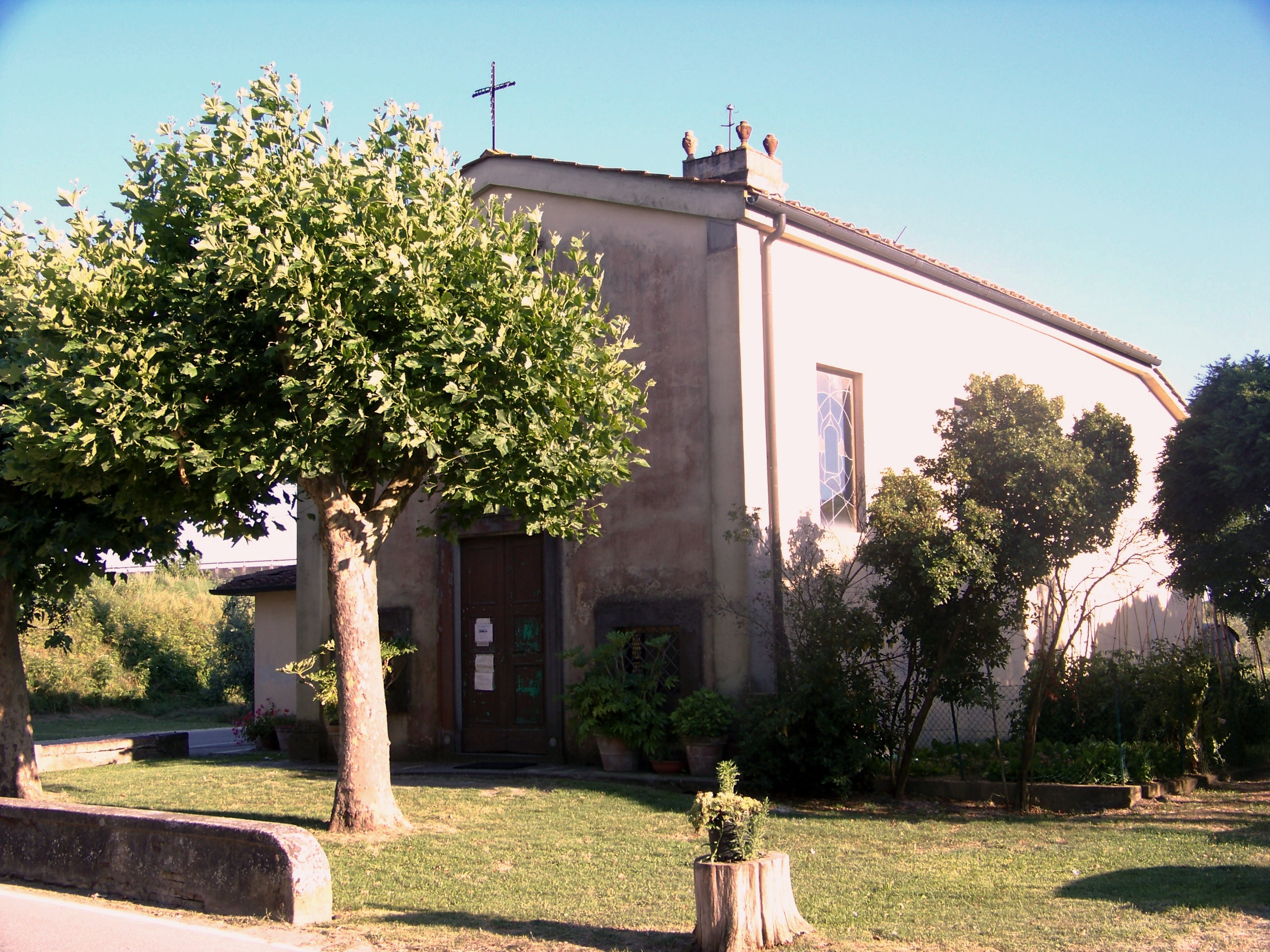 Church of "Madonna dei Braccini" - Pontedera (Pisa)